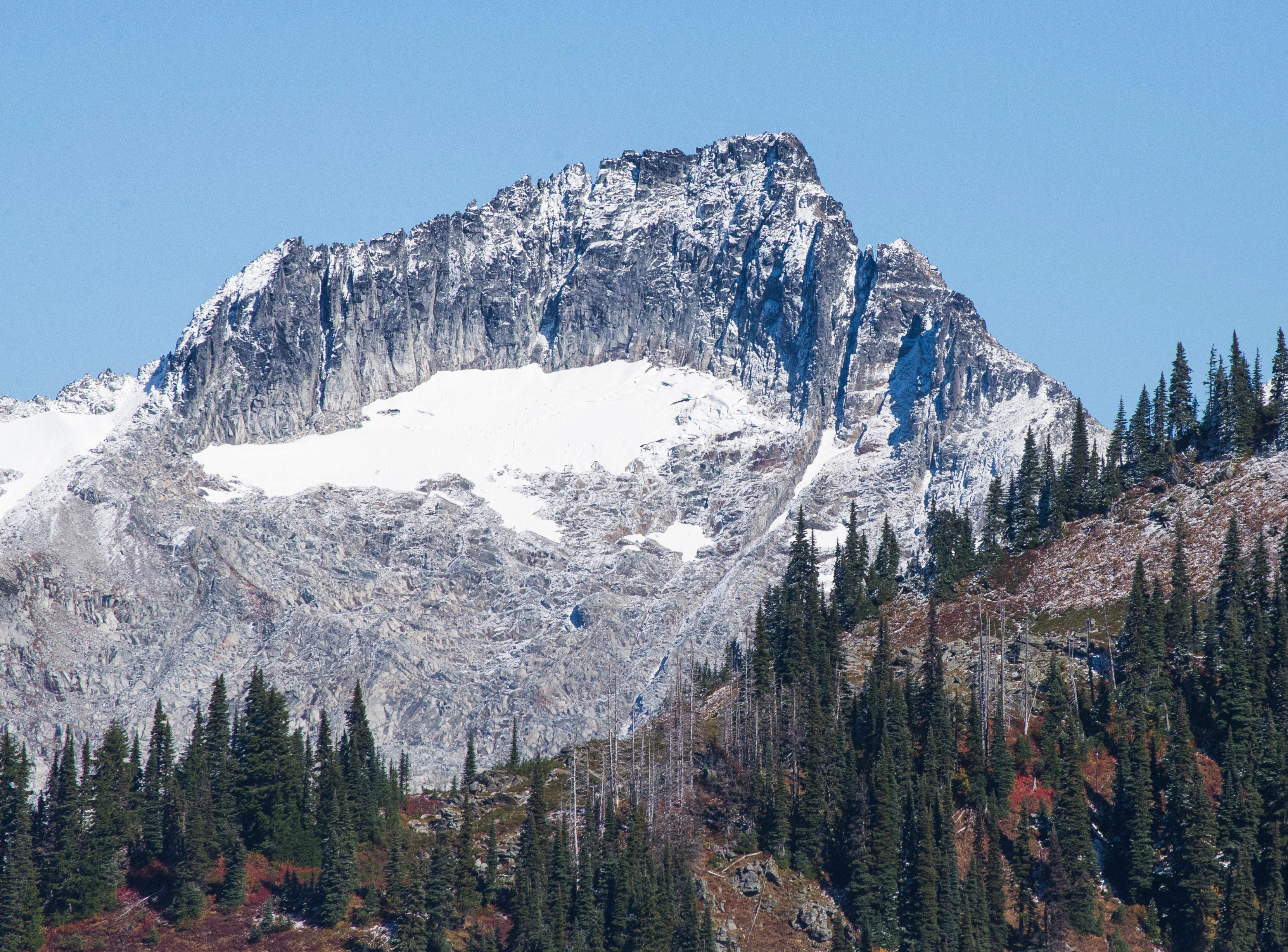 Perdition Peak seen from Hidden Lake Peaks area of the North Cascades